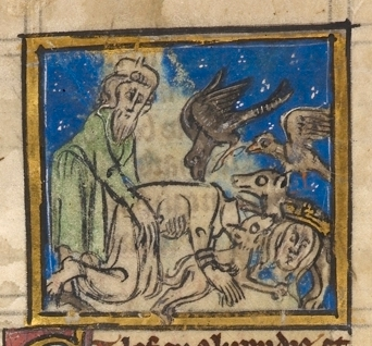 The dead Olympias is thrown to the dogs; detail of a miniature from BL Harley MS 4979, f. 96r. Held and digitised by the British Library.